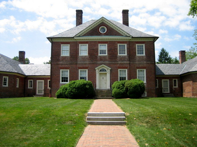 Montpellier Mansion, Maryland